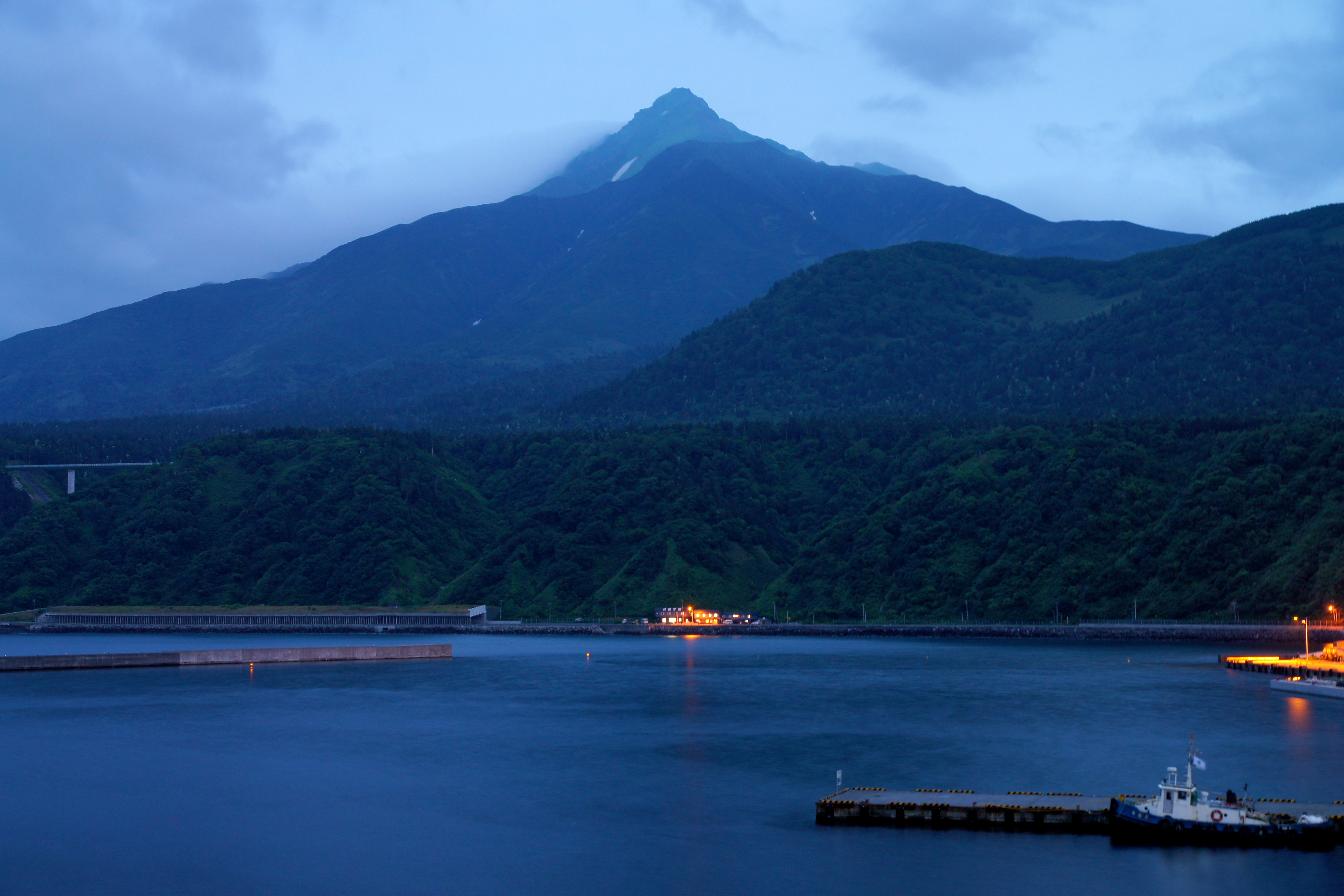 Mount Rishiri view from Oshidomari Port in Rishiri Island, Hokkaido, Japan.